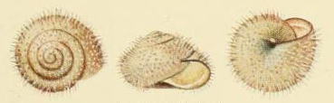 Taylor, J. W. 1917. Monograph of the land and freshwater Mollusca of the British Isles. Part 23. Leeds. (Taylor). Ashfordia granulata by Taylor 1917: Pl. 9